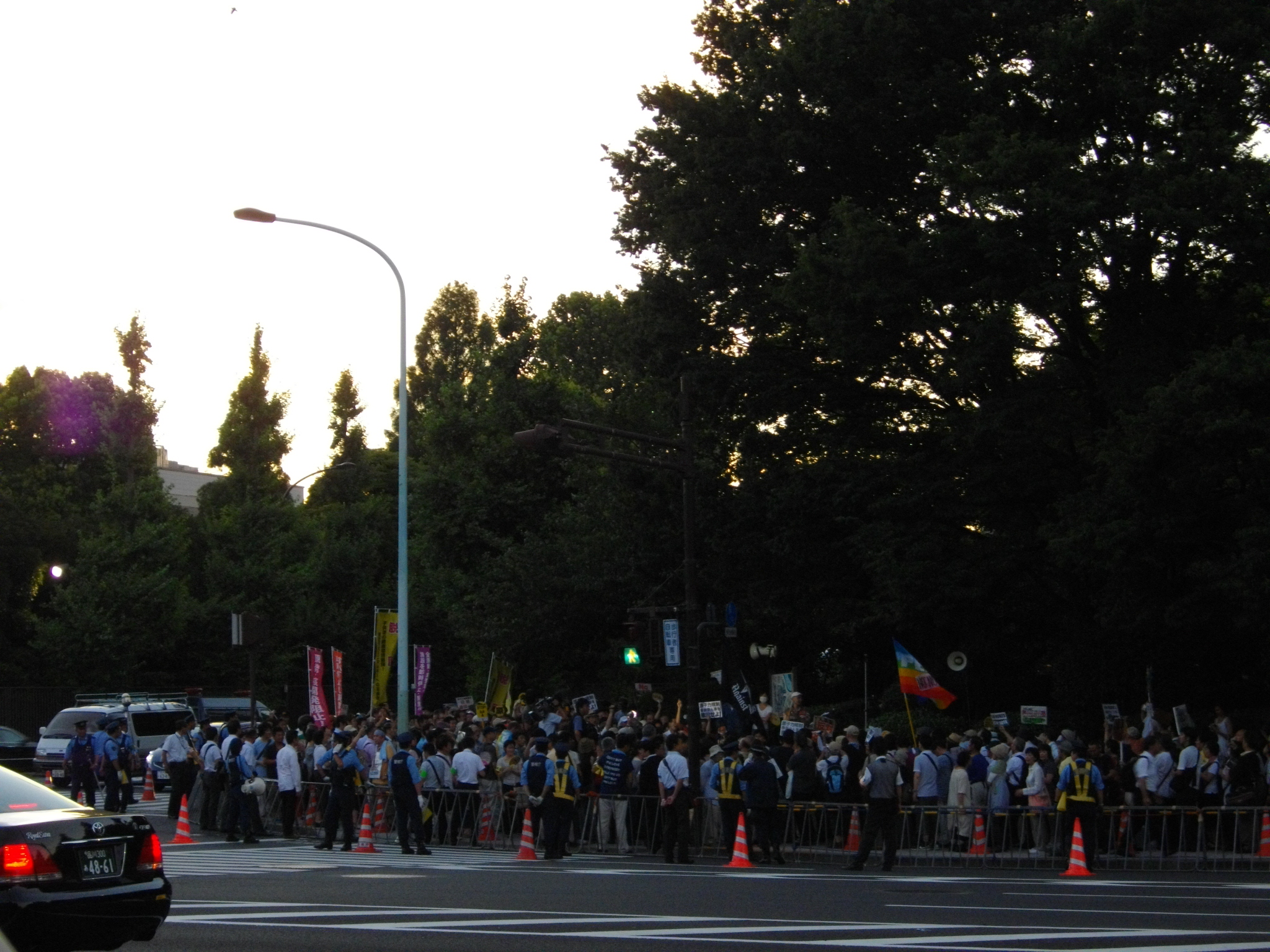 Anti-Nuclear Power Plant Rally on 3 August 2012 at Nagatacho